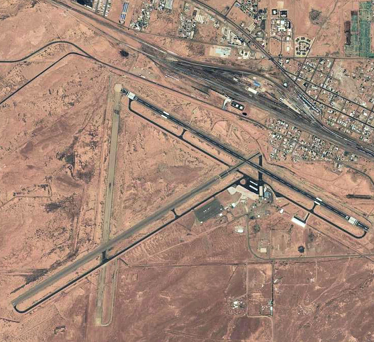 USGS digital Orthophoto of Winslow-Lindbergh Regional Airport in Winslow, Navajo County, Arizona, United States